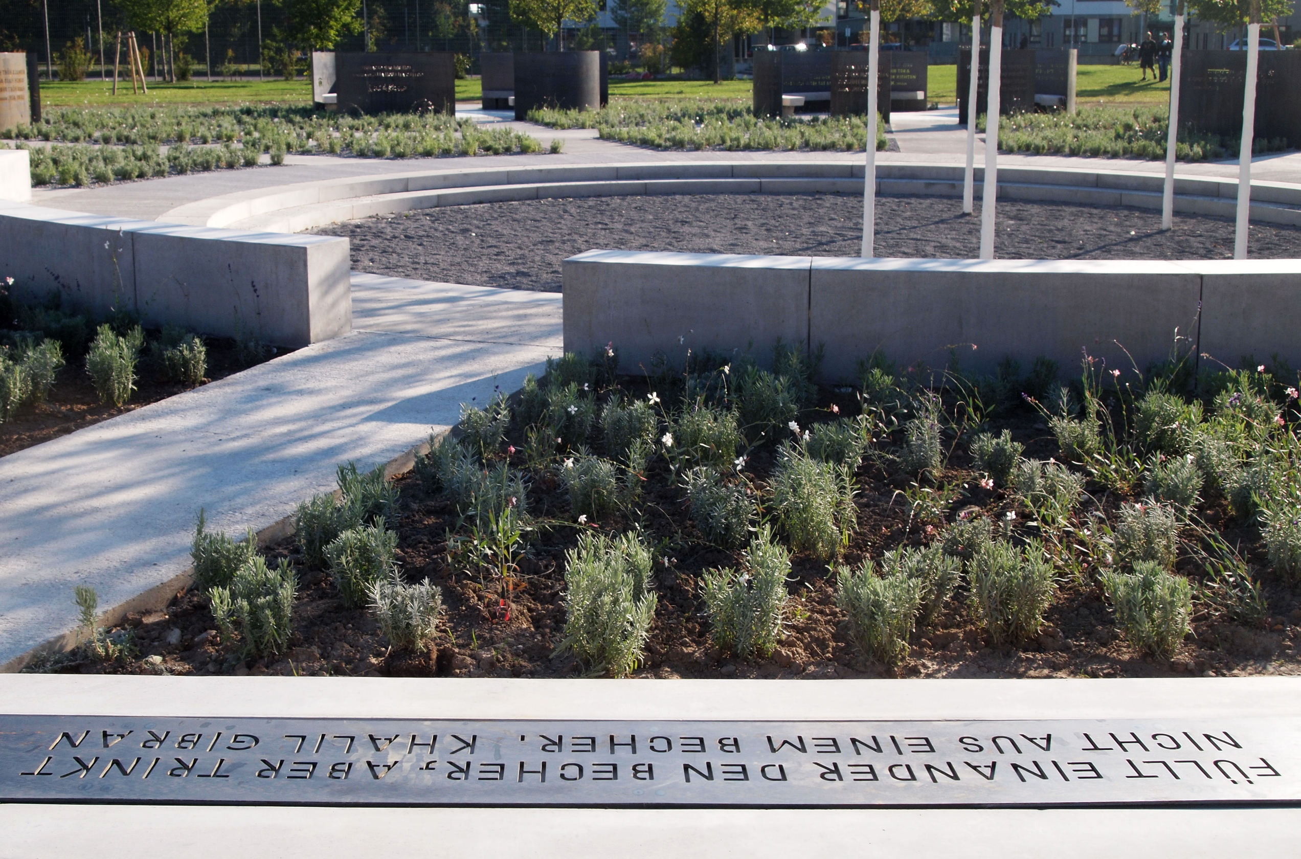 Fill each other's cup but don't drink from one cup